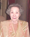 In 1940, Mrs. Sugihara's husband Chiune was the Japanese consul in Kaunas, Lithuania. Defying their government's instructions, the Sugiharas issued exit visas for 2000 Polish Jewish families, allowing them to escape to China by way of Japan. About 40,000 descendants of these refugees are alive today because of the Sugiharas' courageous deeds.